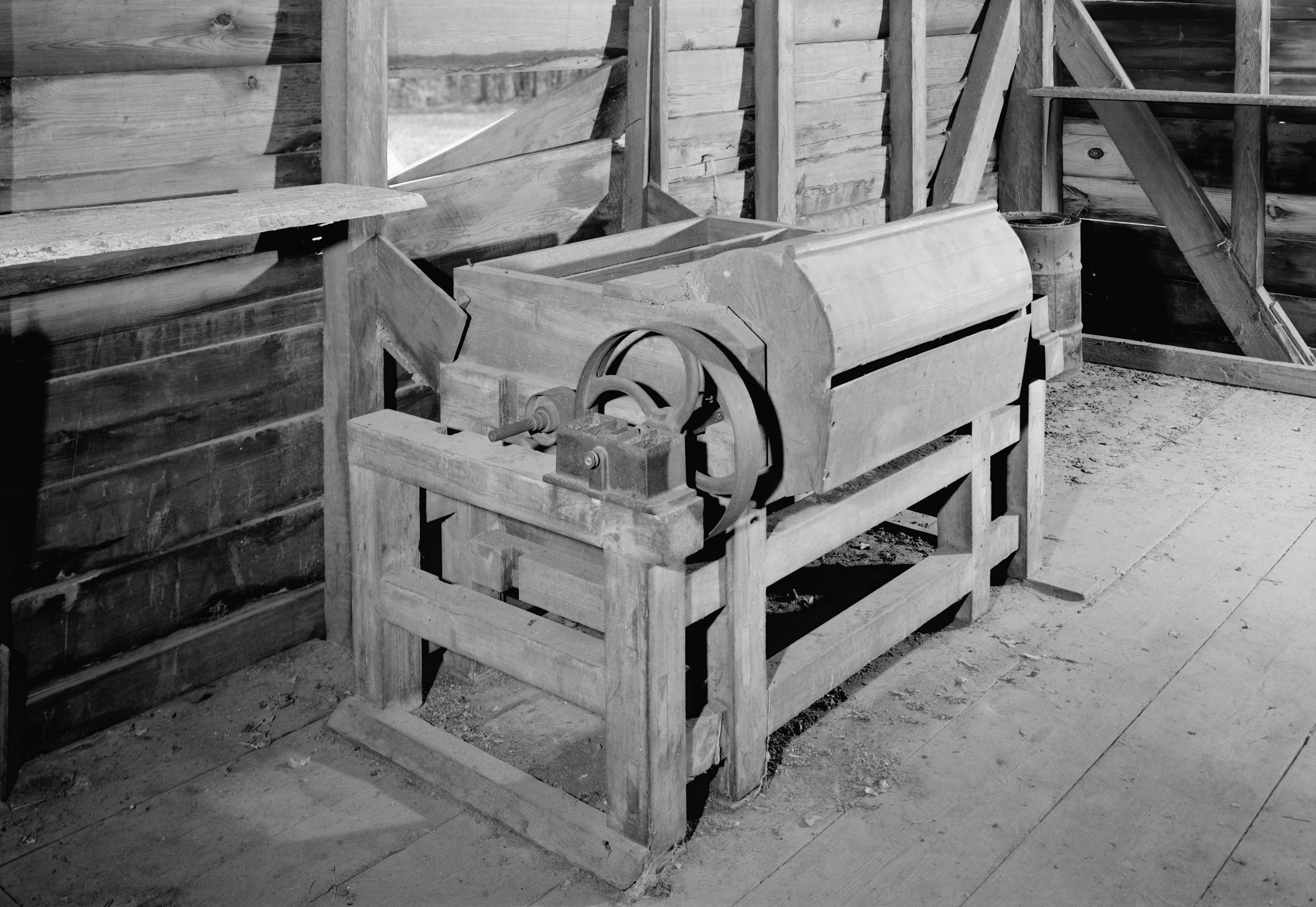 Browntown Cotton Gin, SC Route 341 between Johnsonville & Lake City, Johnsonville vicinity (Florence County, South Carolina)